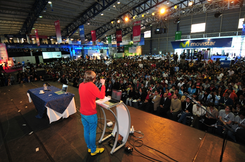 Neil Harbisson in Ecuador